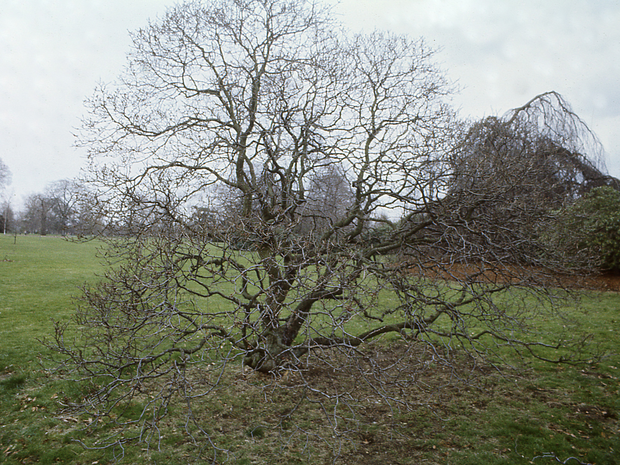 U.glabra 'Nana', Kew Gardens London, April 13, 1986 (photo Mihailo Grbić)